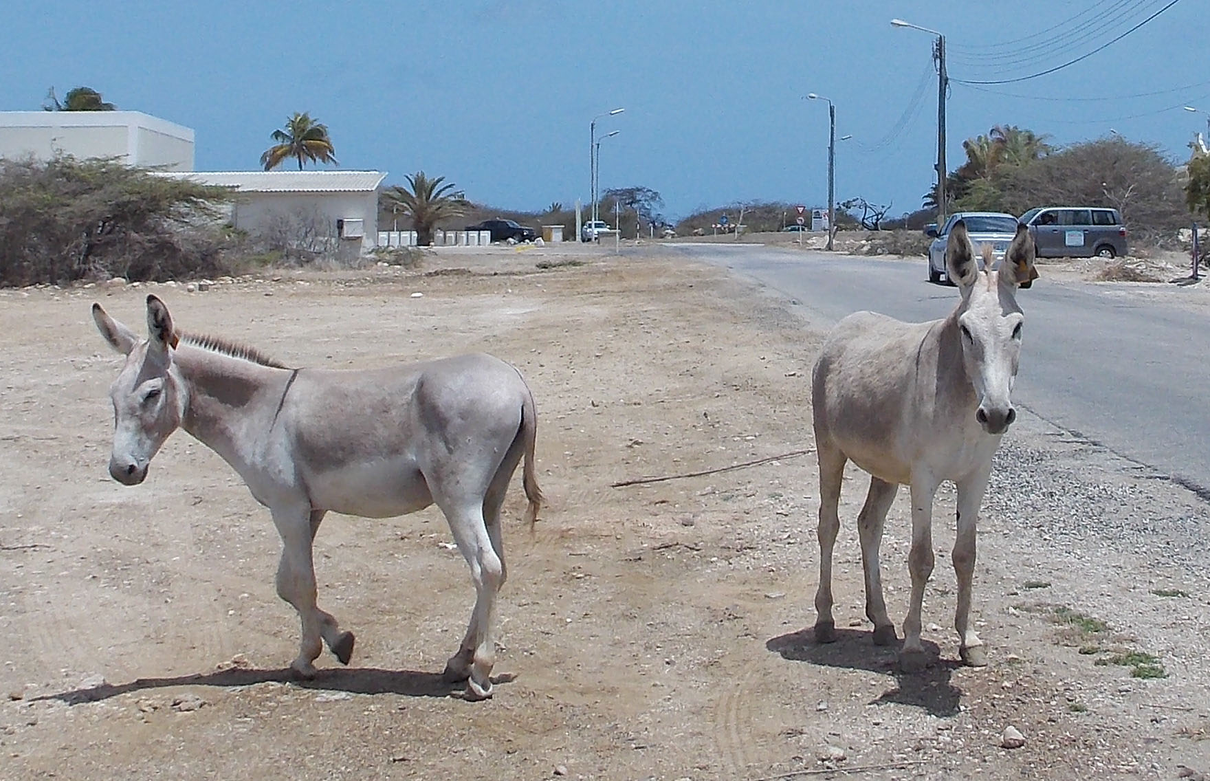 Photo depicting Bonaire's Critically-Endangered Nubian Wild Ass